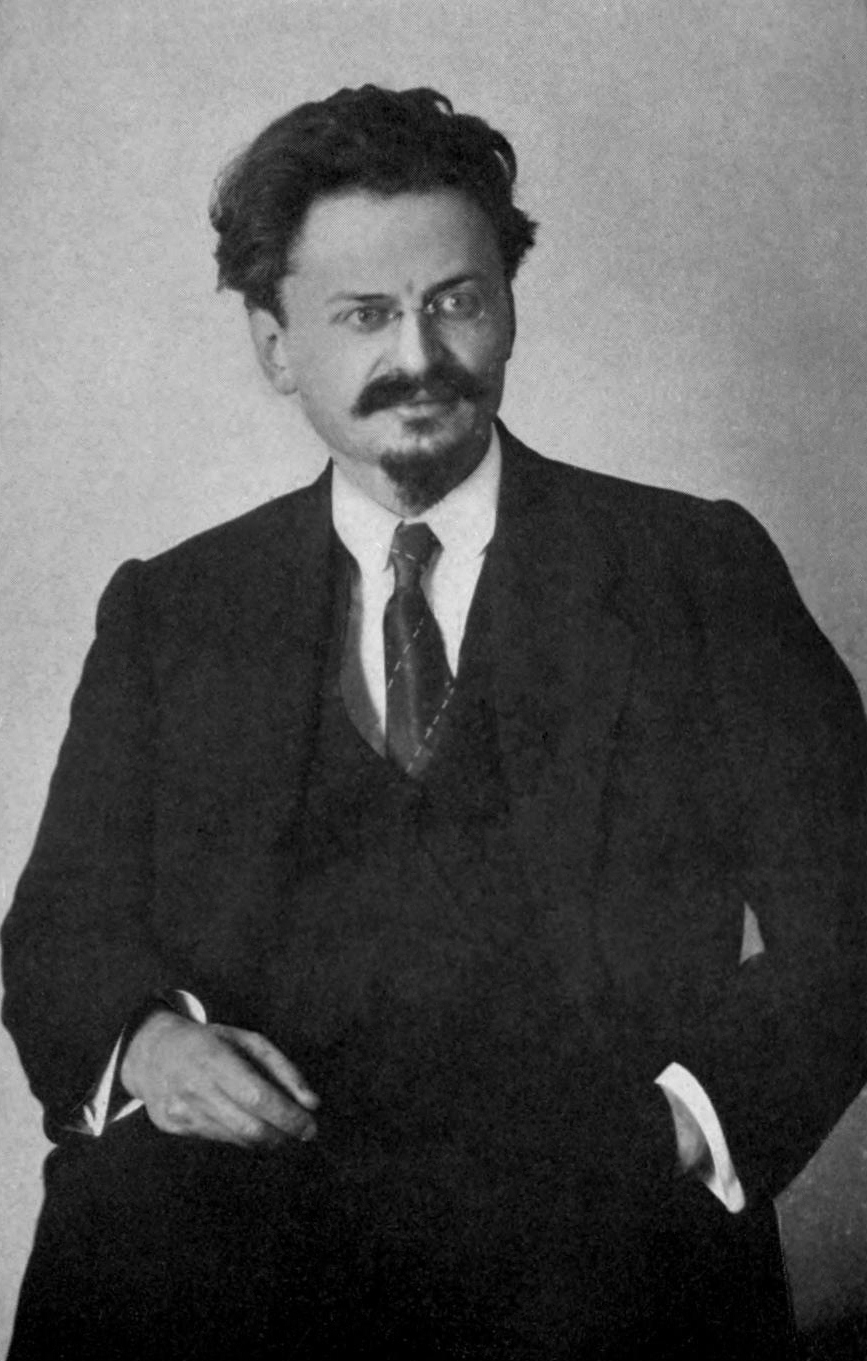 Lev Trotsky